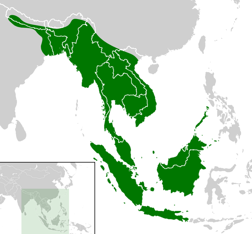 Distribution map of Cyclemys dentata